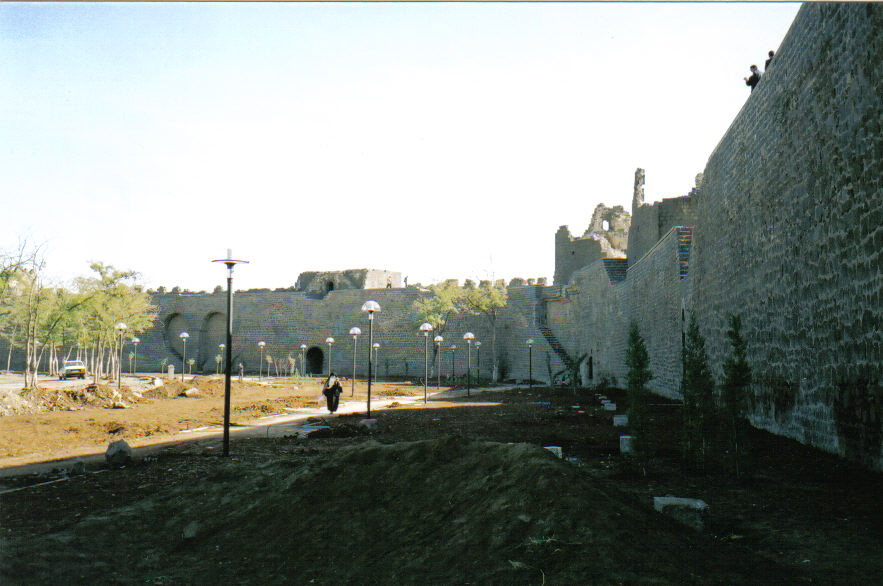 The city walls of Diyarbakir in Southeastern Turkey stretch unbroken for 6 kilometres. The current walls probably date from early Byzantine times. (C) Gerry Lynch, 2003.